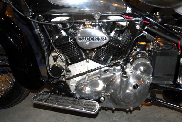 Crocker engine Photo © by Jeff Dean